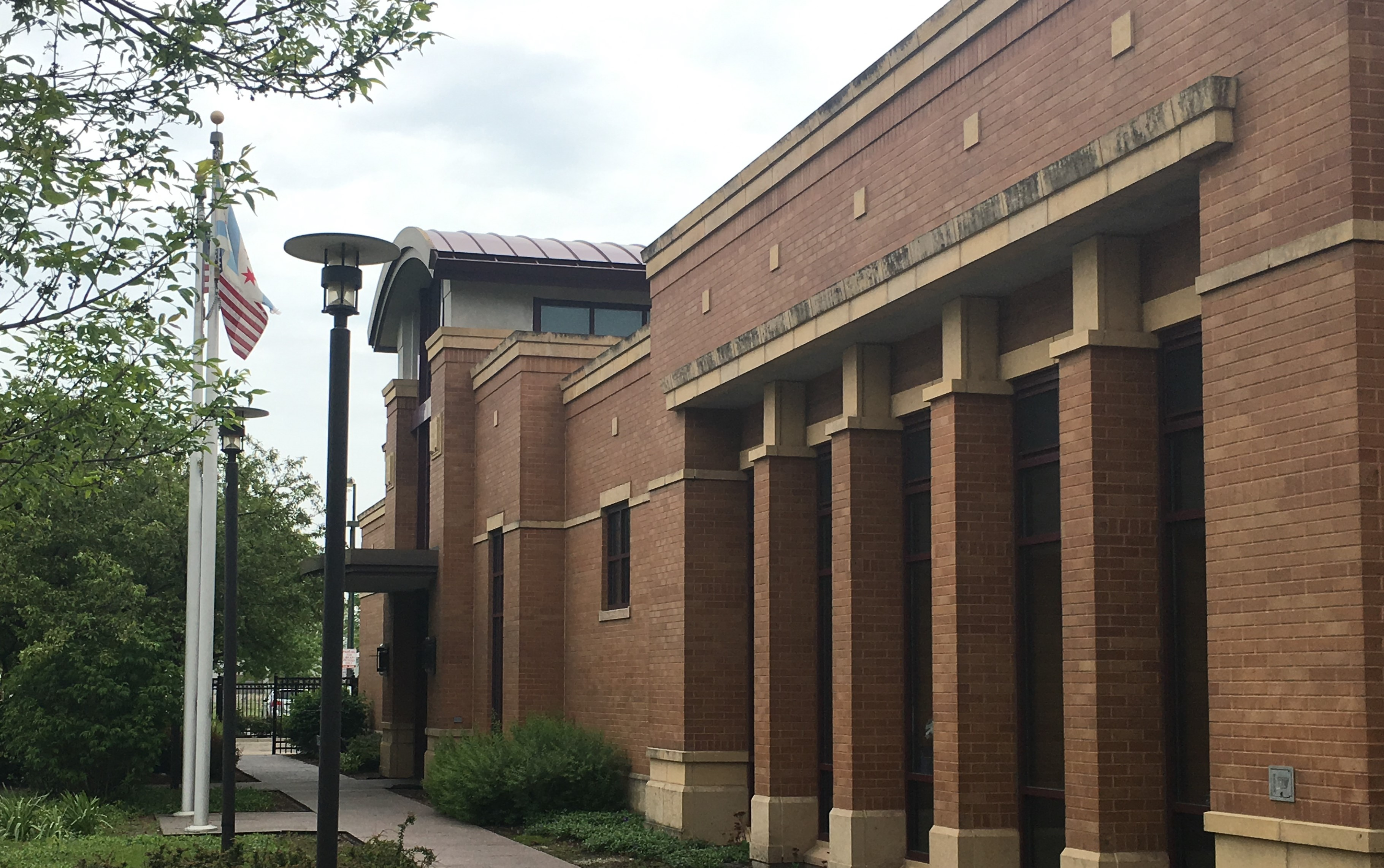 Front view of Archer Heights Public Library